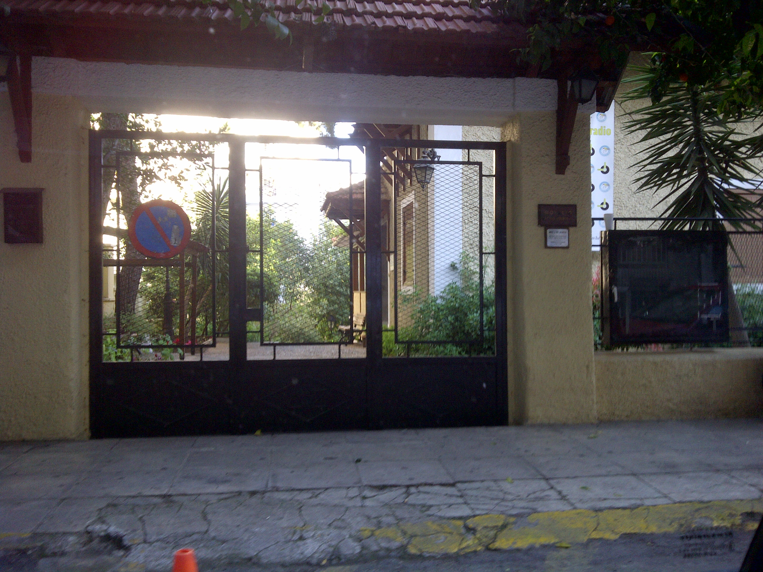 External gate to the Kotopouli Museum, at Zografou, Athens, Greece. A small part of the Villa Kotopouli building, used as a functional museum from the Cultural Centre of Zografou Municipality, can be seen at the background.